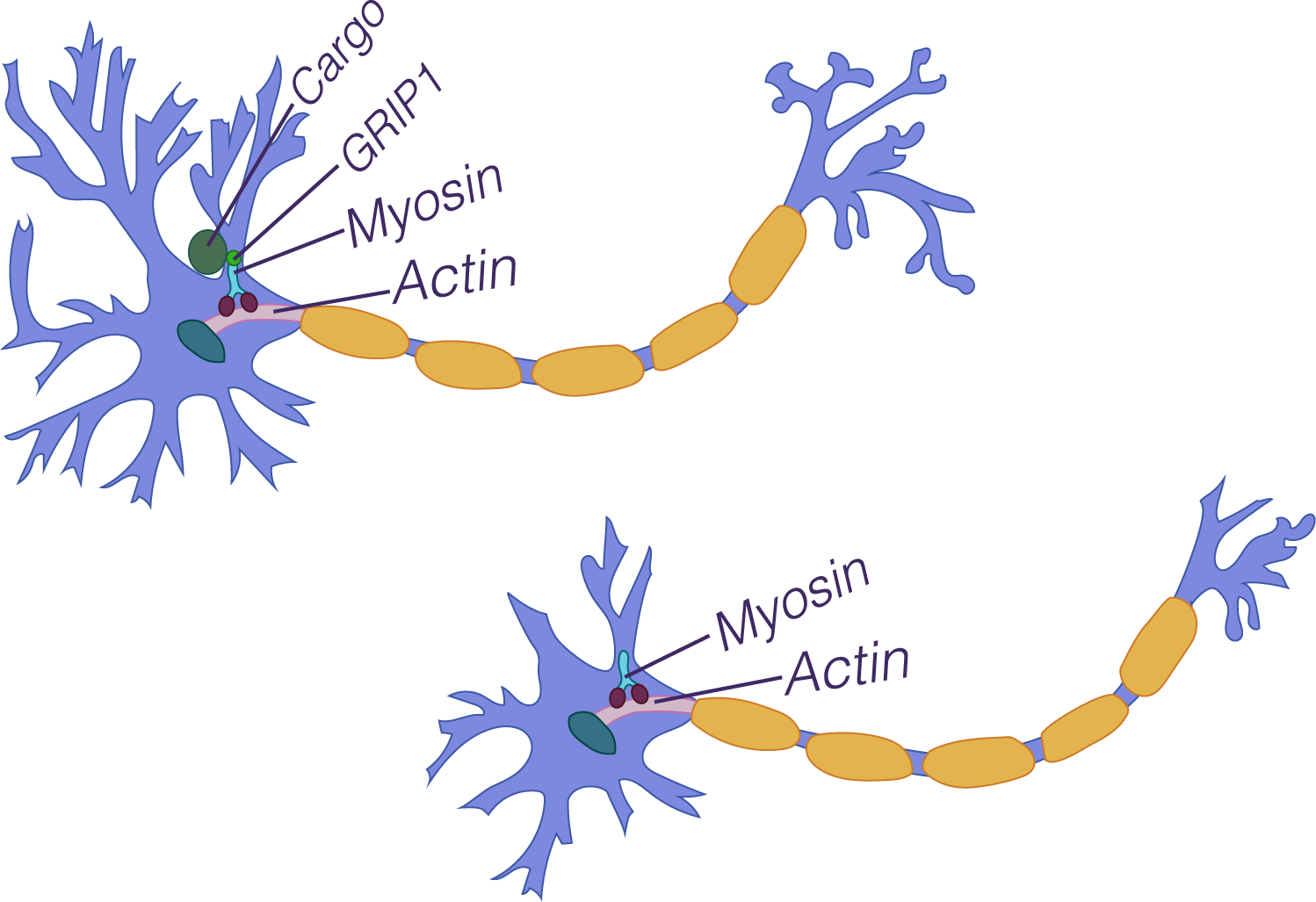 GRIP1 plays an integral role in the development of neuron branching. The top picture shows a normal neuron with GRIP1 activated. In the bottom picture, GRIP1 was inhibited and neuron branching has been severely reduced.